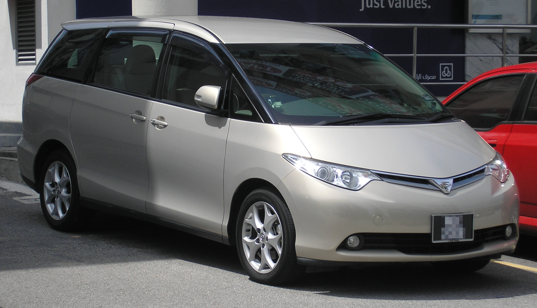 Front-side shot of a third generation Toyota Estima (also known as a Toyota Previa), in Serdang, Selangor, Malaysia.